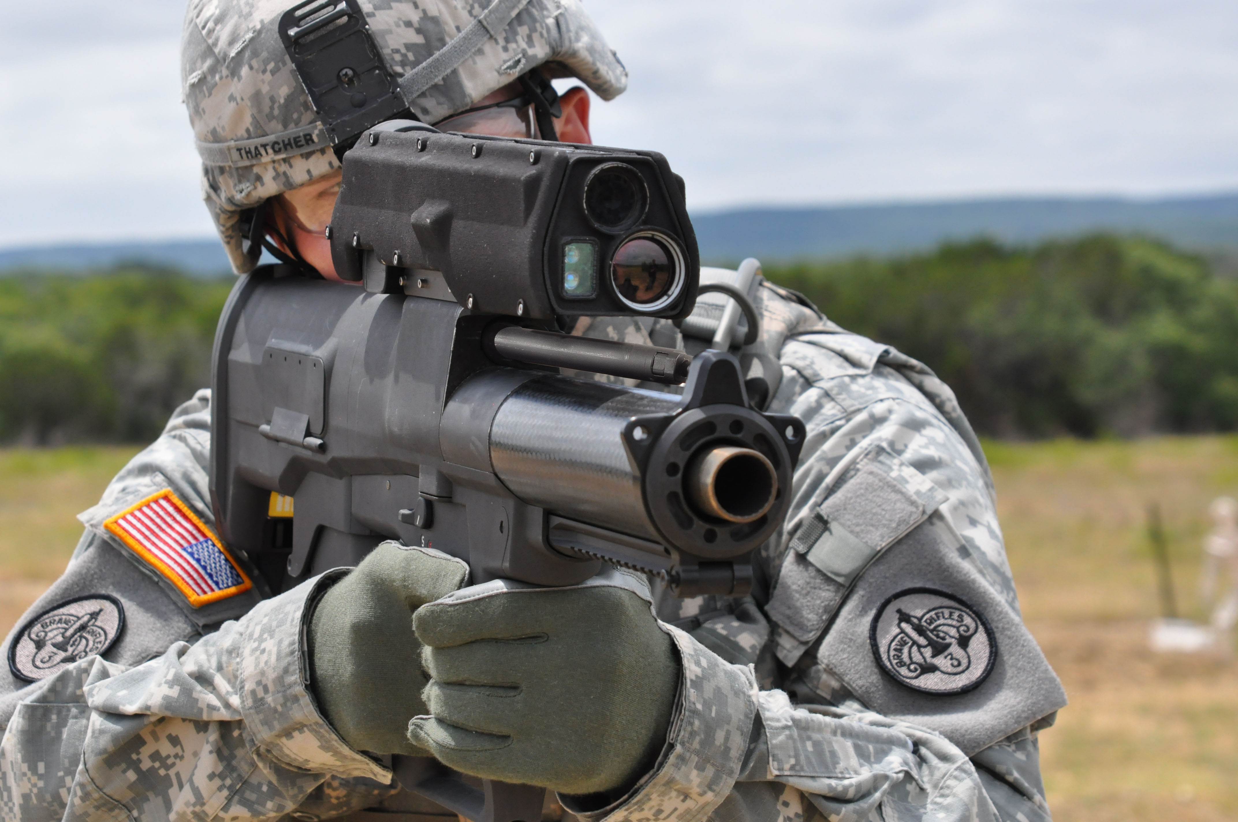 A Soldier aims an XM-25 weapon system at Aberdeen Test Center, Md. It features an array of sights, sensors and lasers housed in a Target Acquisition Fire Control unit on top, an oversized magazine behind the trigger mechanism, and a short, ominous barrel wrapped by a recoil dampening sleeve. See more at